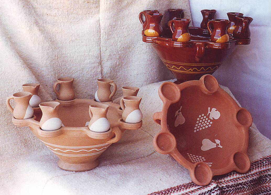 Cuervera collection. Museum Chinchilla Montearagón ceramic material. Pilar Belmonte Useros composition.